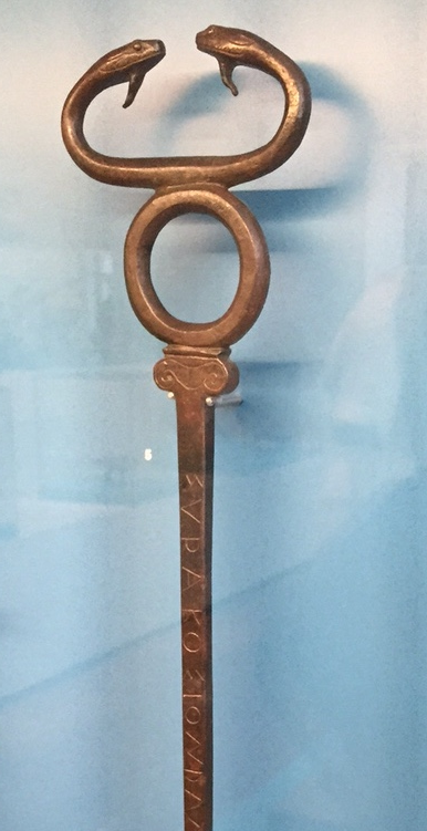 Ancient Greek herald's staffs (kerykeia), used to identify and protect the herald. Photographed at the Museum für Kunst und Gewerbe, Hamburg, Germany